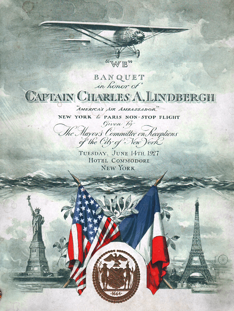 Cover of the program for the "WE" Banquet given for Charles Lindbergh by the Mayor's Committee on Receptions of the City of New York on June 14, 1927